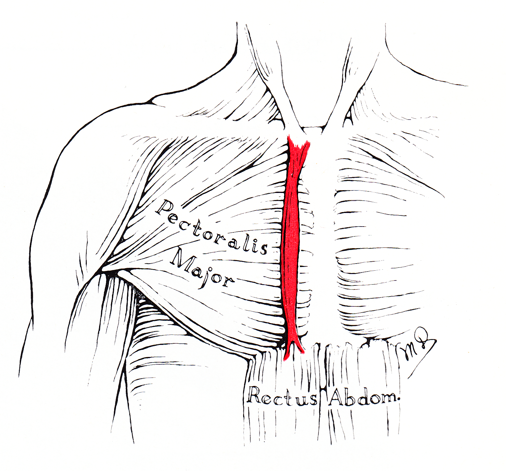 An anatomical illustration from An atlas of anatomy/by regions 1962. The rectus sternalis muscle is highlighted.